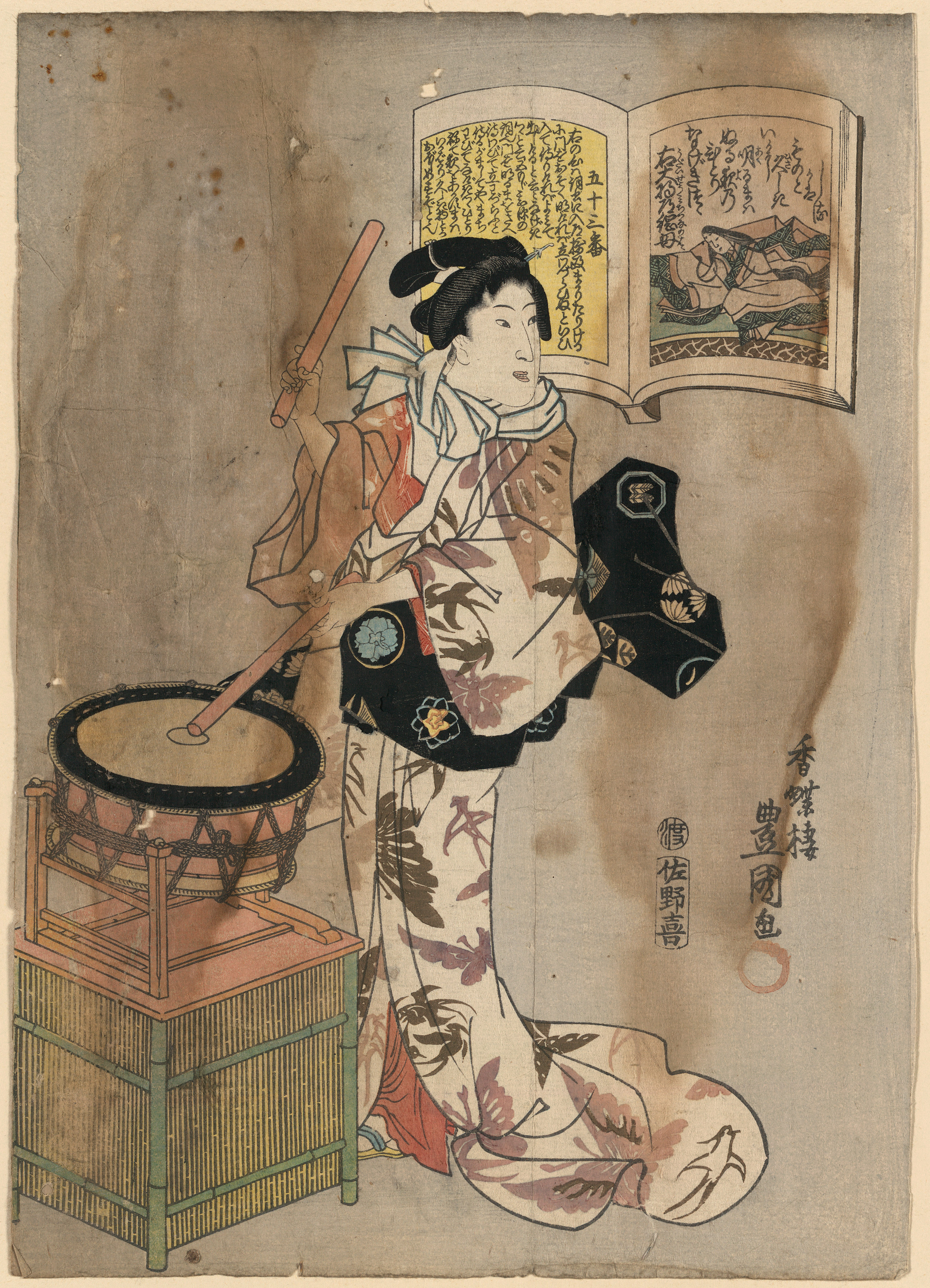 Title: Udaisho michitsuna no haha Abstract/medium: 1 print : woodcut, color ; 36.2 x 25.9 cm.